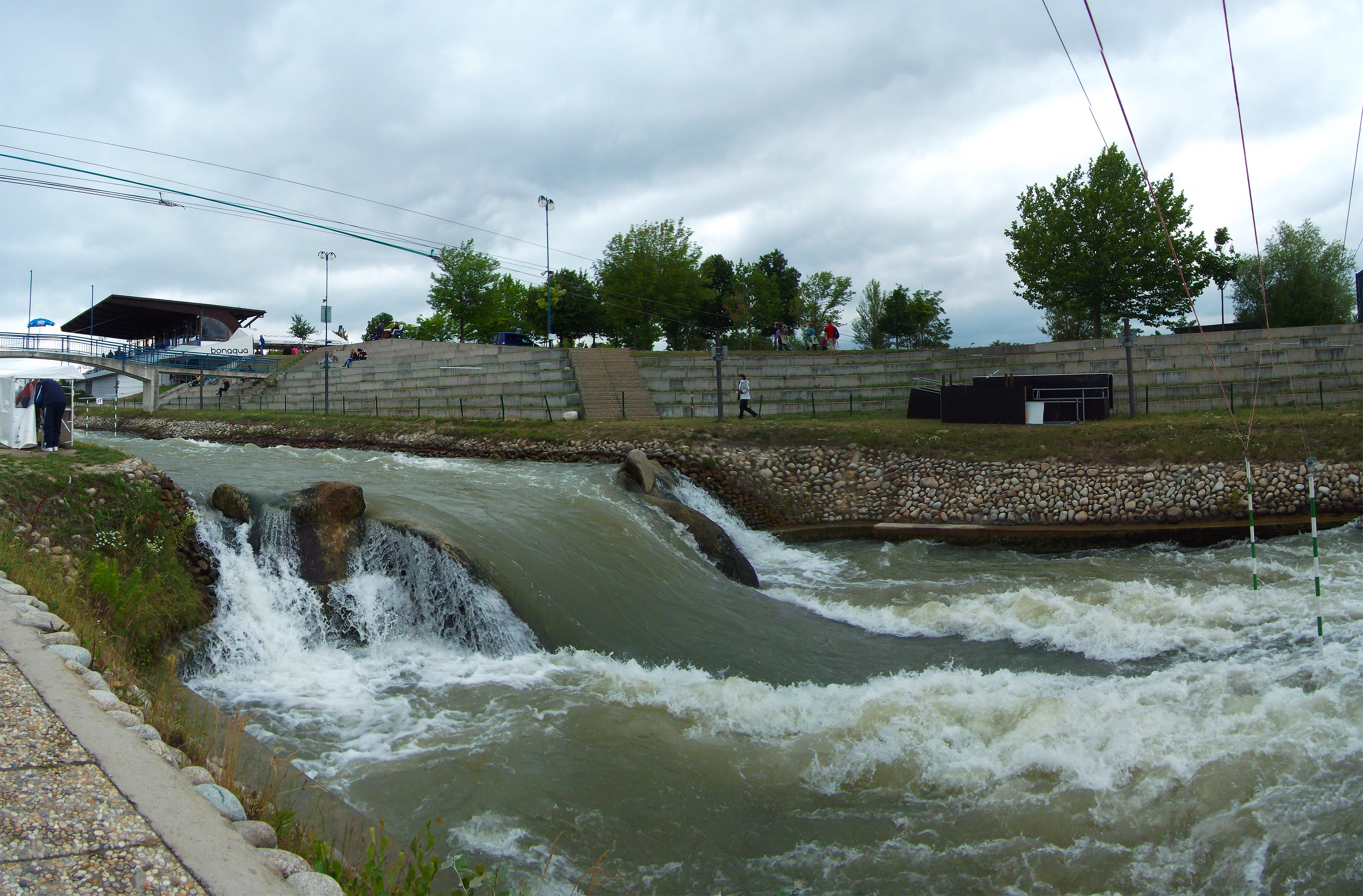 Niagara Drop at Cunovo Whitewater Center Danube River Slovakia, the last drop of the north, or left, channel. It is often the location of gates #20 and #21 in international canoe slalom competition.